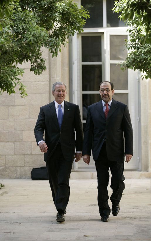 President George W. Bush walks with Prime Minister Nouri al-Maliki Tuesday, June 13, 2006, at the U.S. Embassy in Baghdad, Iraq. During his unannounced trip to Iraq, President Bush thanked the Prime Minister, telling him, "I'm convinced you will succeed, and so will the world."